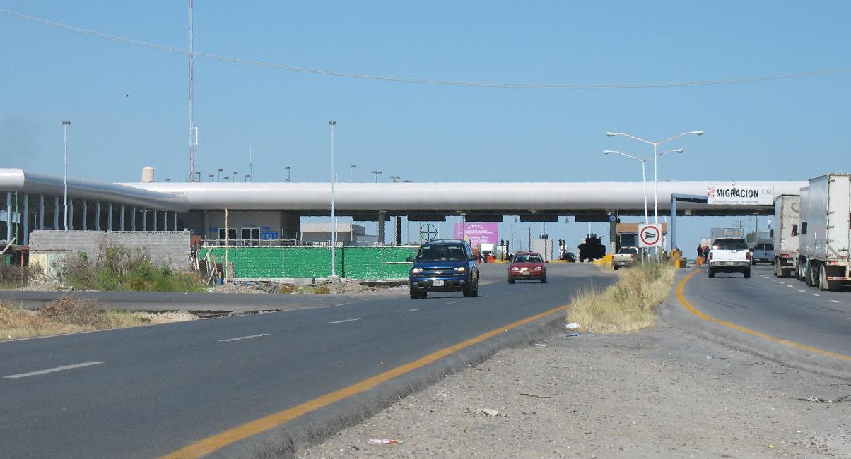 Garita Kilómetro 26 located 26 km south of Nuevo Laredo, Mexico. Not home 02:54, 8 October 2007 (UTC)